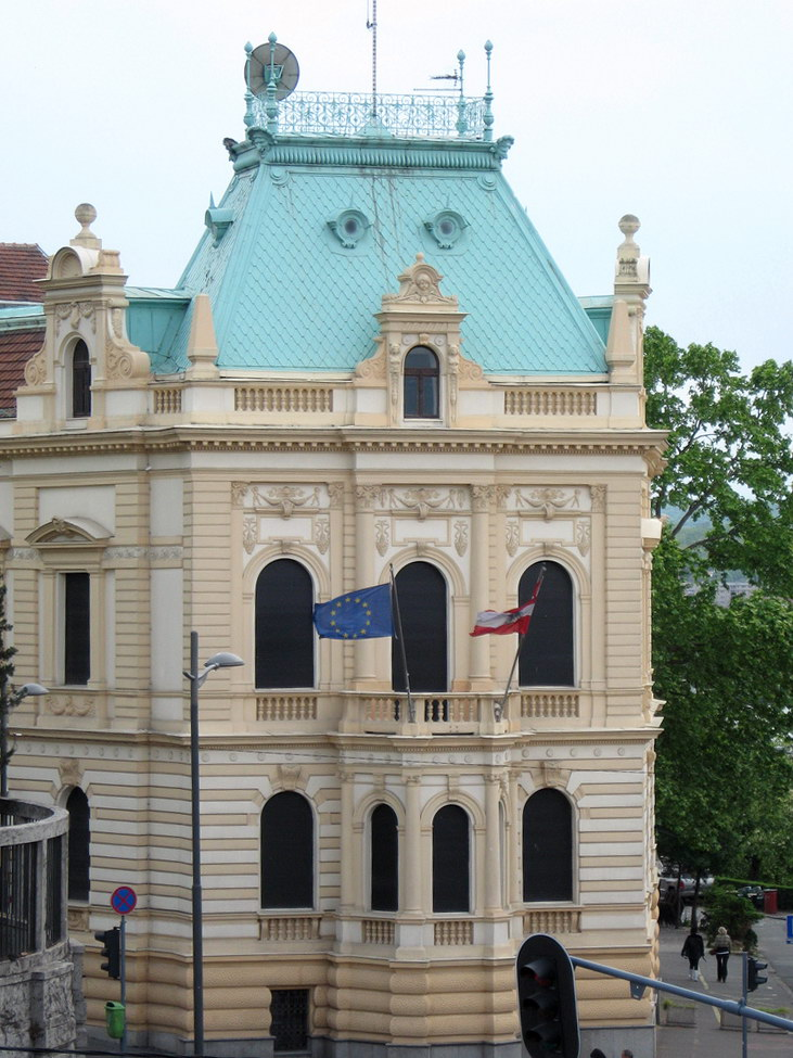 Austrian Embassy, Belgrade